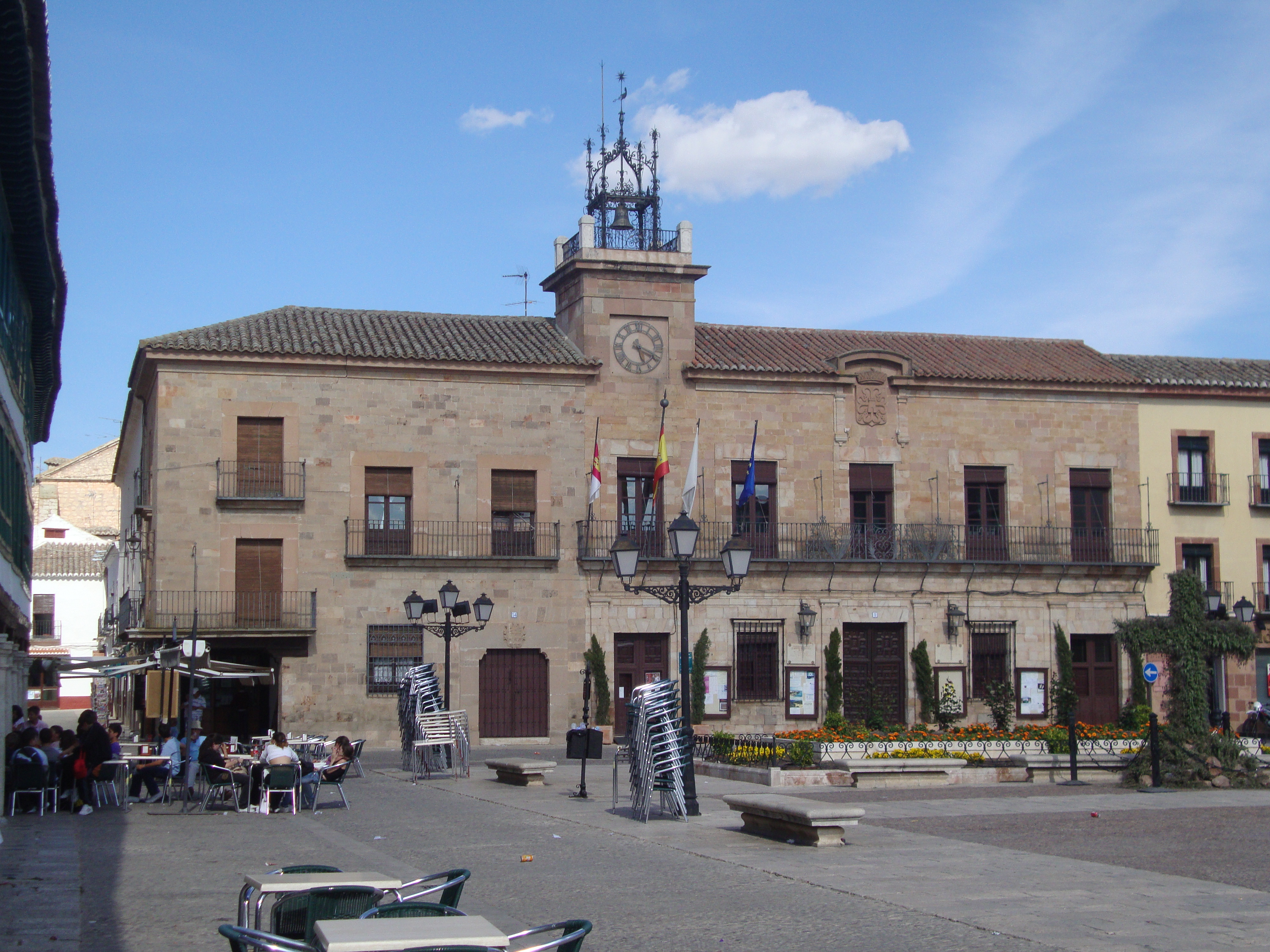 Almagro's town hall, in Castile_La Mancha